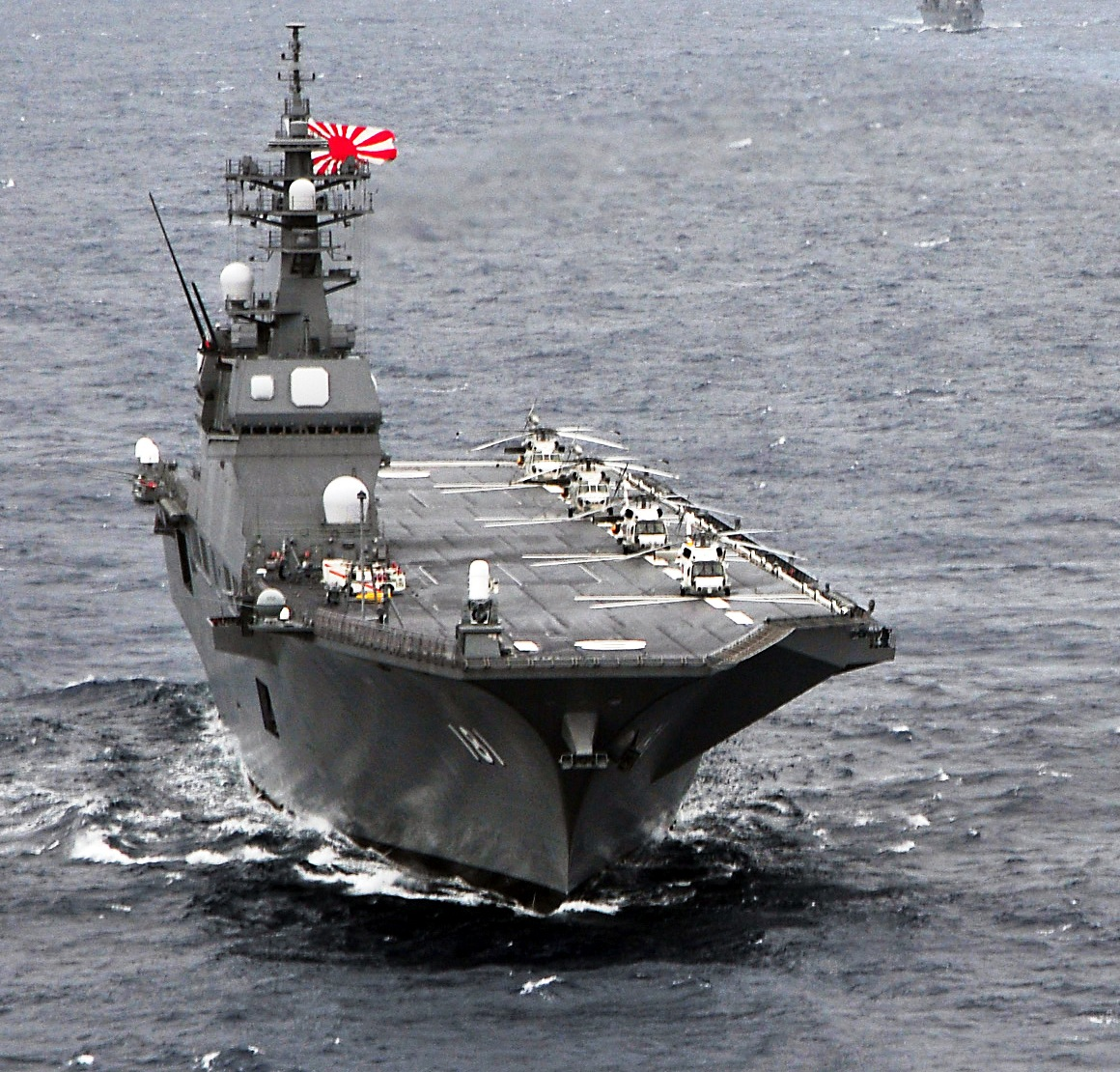 The Japan Maritime Self-Defense Force helicopter destroyer JS Hyuga (DDH 181) during Annual Exercise ANNUALEX 21G.